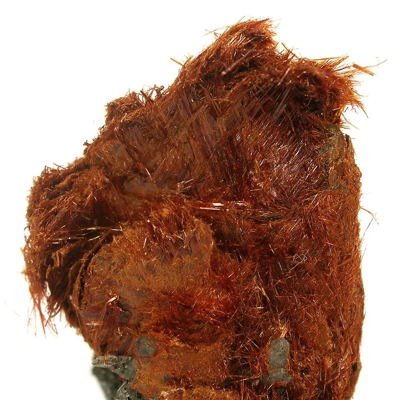 Ludlockite Locality: Tsumeb, Otjikoto (Oshikoto) Region, Namibia (Locality at ) Size: miniature, 3.9 x 2.3 x 1.5 cm Ludlockite Ludlockite, found here at its type locality, is a strange iron-lead arsenite that was found around 1970 in the very lower depths of the Tsumeb Mine, in its deepest oxidation zone filled with all kinds of bizarre mineralogy. The color of ludlockite is interesting, but when combined with the metallic lustre to its fibrous crystals, the overall effect of a ludlockite specimen is unique and visually stunning. It looks like hair dipped in bronze and gelatin. This is a very rich, sturdy cluster of intergrown acicular crystals, perched on a minimal amount of ore matrix. A rare, display-sized, beautiful miniature specimen for this species normally available to collectors today only as micros or small pockets rather than with such large freestanding clusters such as this. Ex. Robert Whitmore Collection.